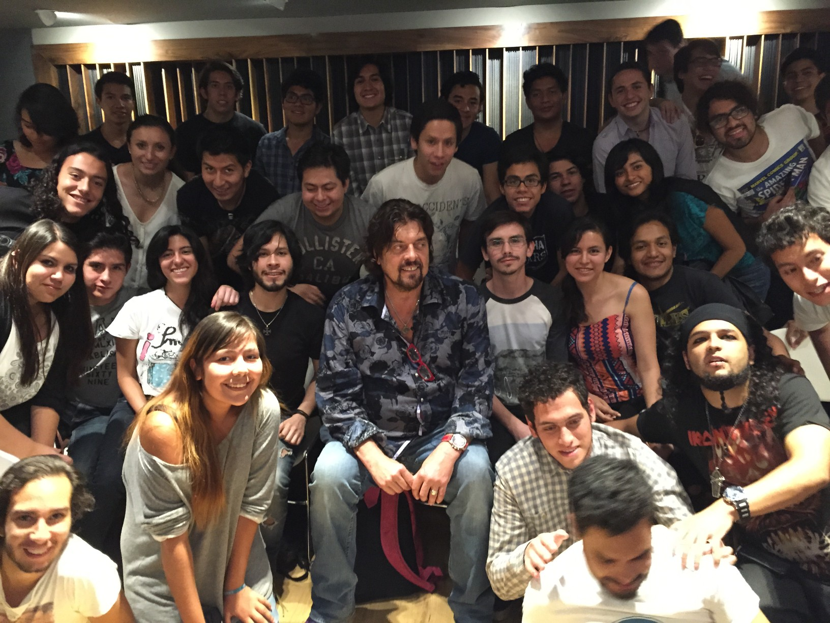 Allan Parsons during a master class at Tecnológico de Monterrey Campus Ciudad de México